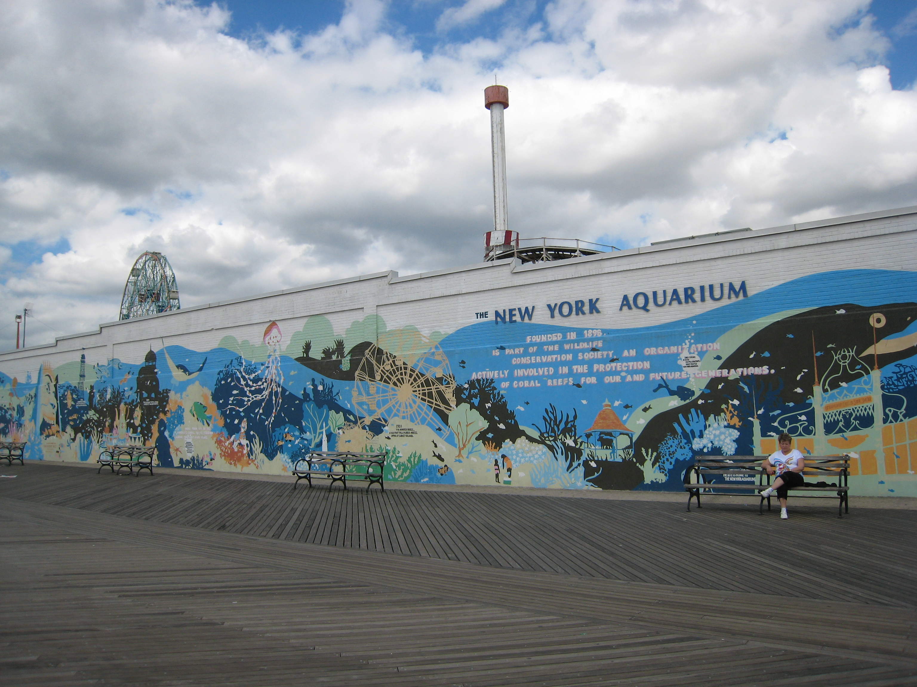 Aquarium for Wildlife Conservation